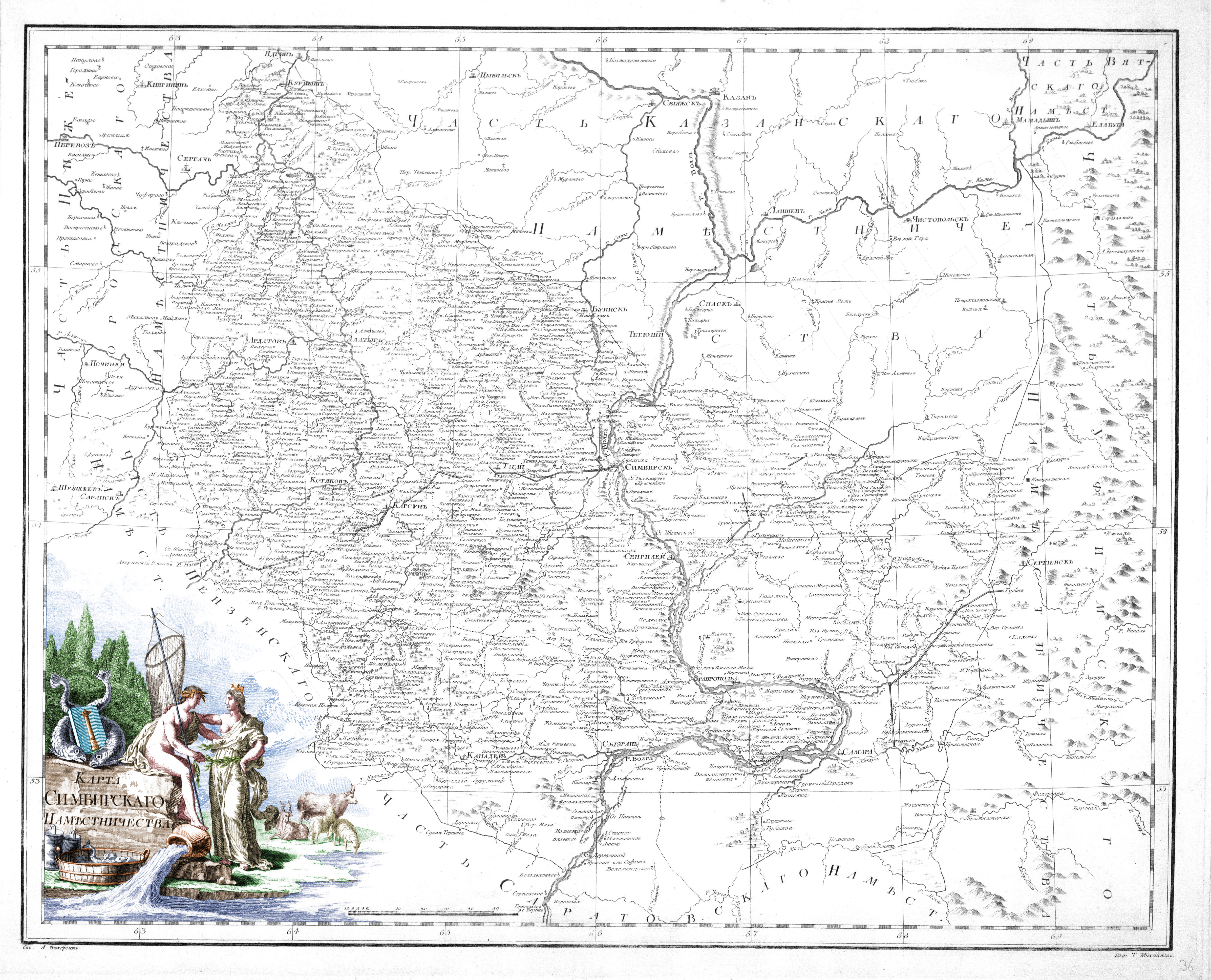 Map of Simbirsk Namestnichestvo (sheet 36) from official Atlas of the Russian Empire (1792). With colour cartouche.